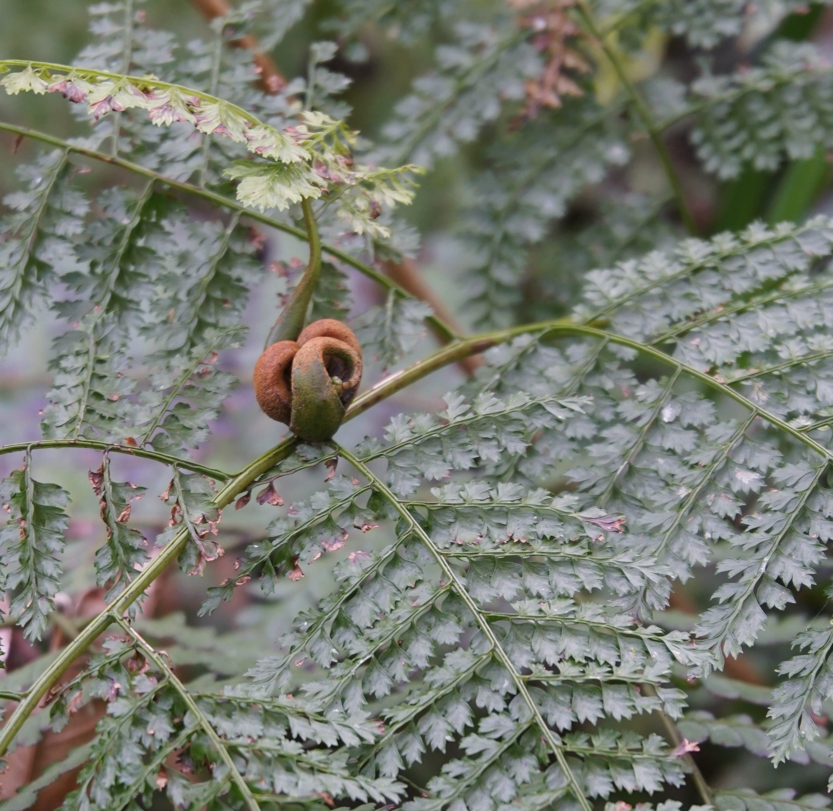 an adventitious bud of Monachosorum henryi